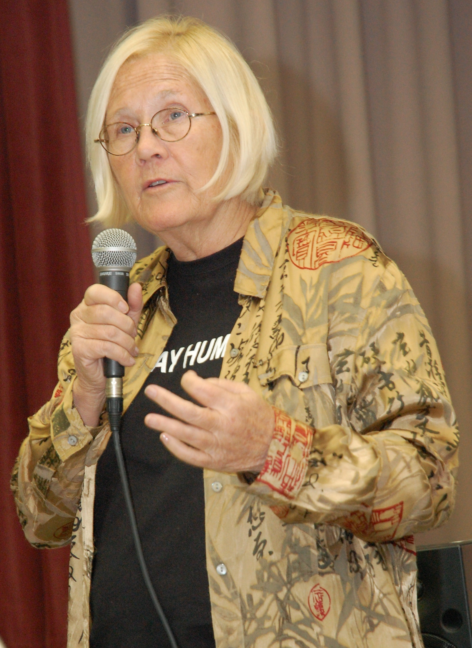 Colonel Ann Wright (US Army, Ret.) speaking on Staten Island. The occasion was the fourth annual "Make Food Not War" awards dinner hosted by Peace Action Staten Island.